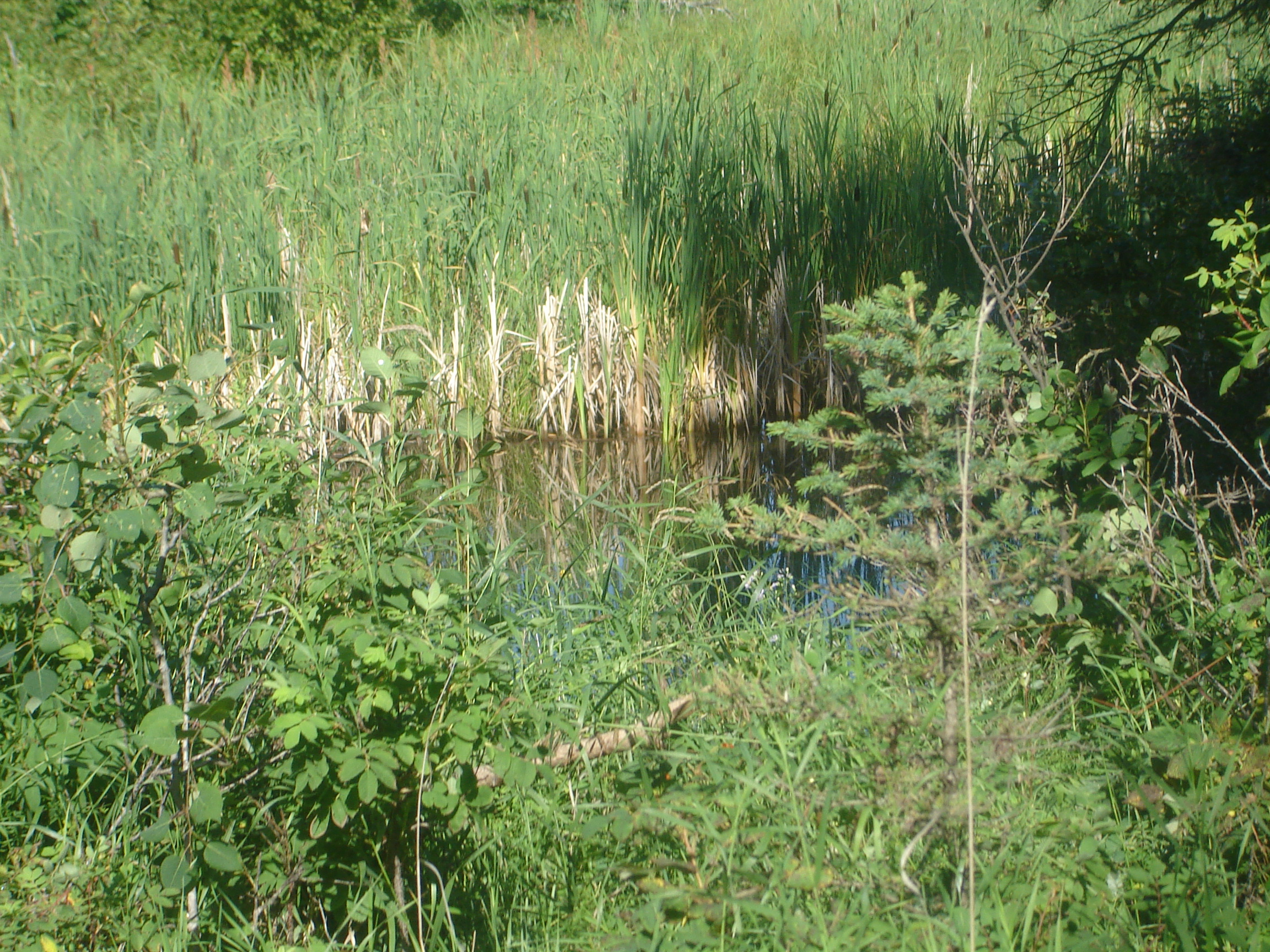 River near Flotten Lake in the Meadow Lake Provincial Park